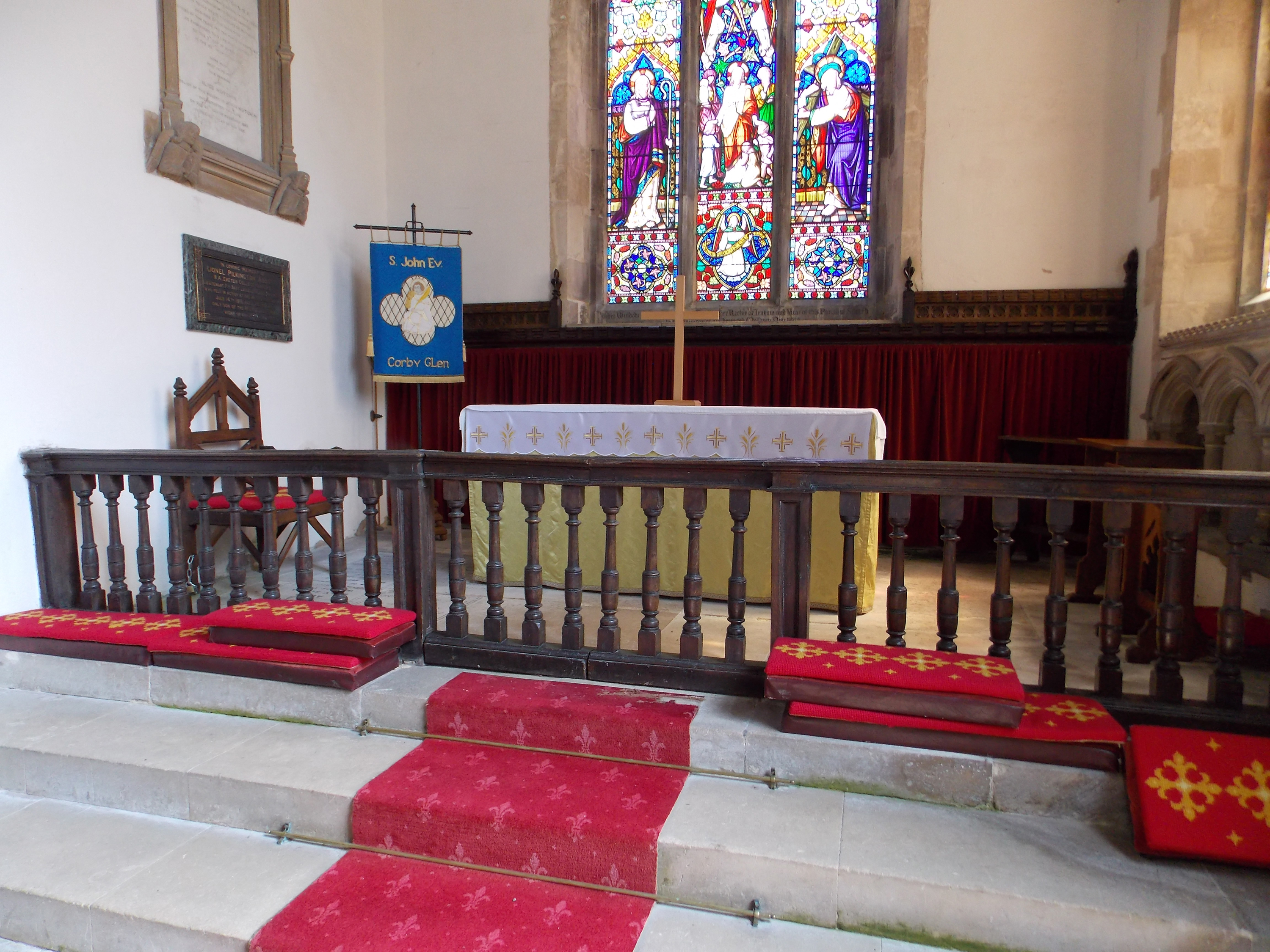 Corby Glen St John's - 17th-century communion rail around the chancel altar, installed to prevent dogs from entering the sanctuary